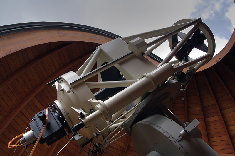 0.6m Carl Zeiss Cassegrain telescope in Ostrowik near Warsaw